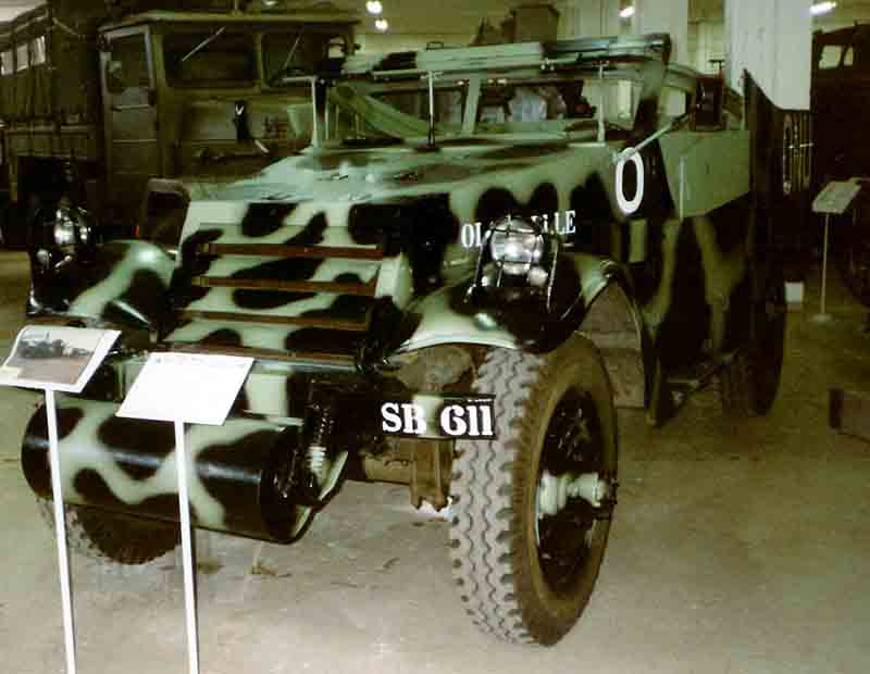 White M3 Scout Car